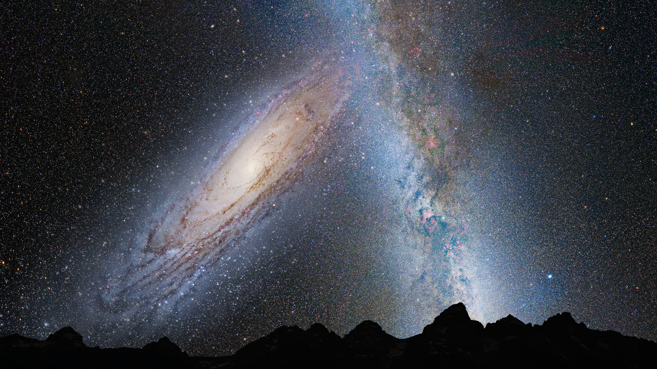 This illustration shows a stage in the predicted merger between our Milky Way galaxy and the neighboring Andromeda galaxy, as it will unfold over the next several billion years. In this image, representing Earth's night sky in 3.75 billion years, Andromeda (left) fills the field of view and begins to distort the Milky Way with tidal pull.